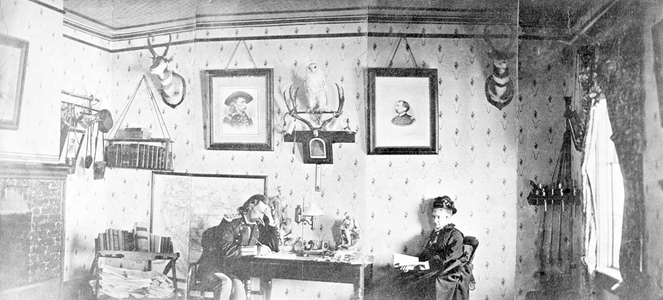 Black-and-white photographic portrait of George Armstrong Custer and his wife at Fort Lincoln, Dakota Territory, 1874. Written on the back of the photograph is this summary: "Gen Custers smuggery at Fort Lincoln, Dakota." Image courtesy of the Beinecke Rare Book & Manuscript Library, Yale University.